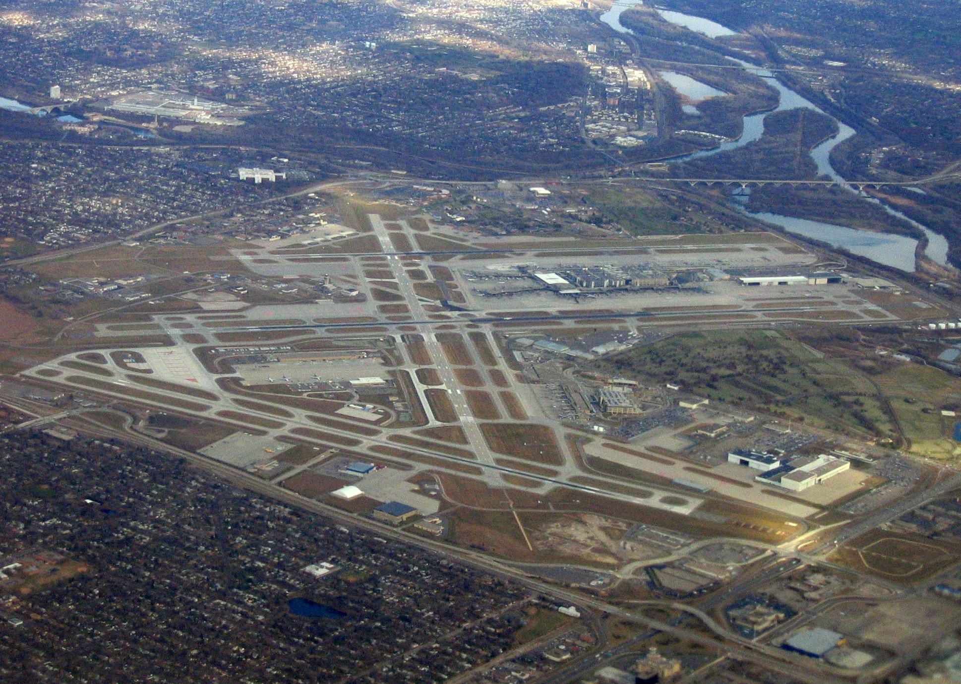 Minneapolis-St. Paul International Airport from the air in November